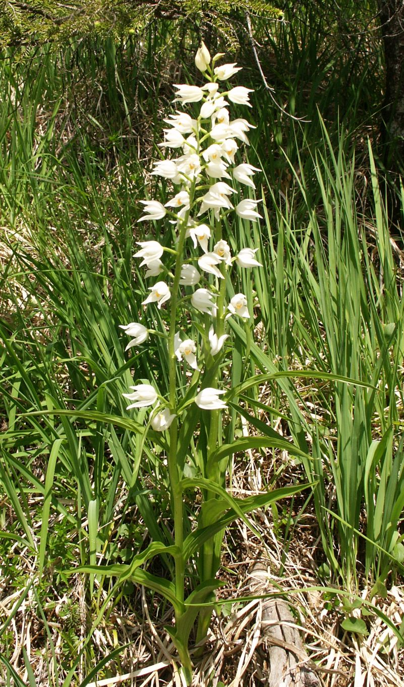 Sword-leaved helleborine, Ausserfern, Austria